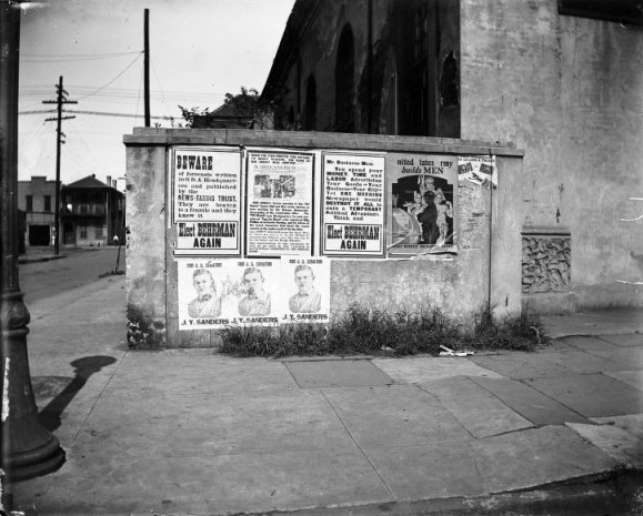 New Orleans, Louisiana, 1920. "Ring Signs on the Brick Wall of Old Saint Anthony's Church". Photograph of a section of church wall has posters pasted on it. Posters advocate re-election of mayor Martin Behrman (who lost the office in this election to challenger Andrew J. McShane), J.Y. Sanders for Senator (who lost to Edwin S. Broussard). Another poster recruits for the US Army with the slogan "United States Army Builds Men". Note: Louisiana State Library website has this identified as the St. Anthony of Padua Church on Canal Street in Mid-City; I believe this is incorrect, and the actual church is the one now known as Our Lady of Guadalupe. Photographer calling it by its old "Saint Anthony" name, and note the specification "Old Saint Anthony's Church" while the St. Anthony of Padua Church in Mid City was new at the time, having been dedicated I believe in 1915 [1]. I think the location is the corner of Conti and Rampart, looking lakwards, with 2 buildings at the uptown lake corner of Conti and Basin visible in distance at left. -- Infrogmation (talk) 01:30, 1 December 2010 (UTC)